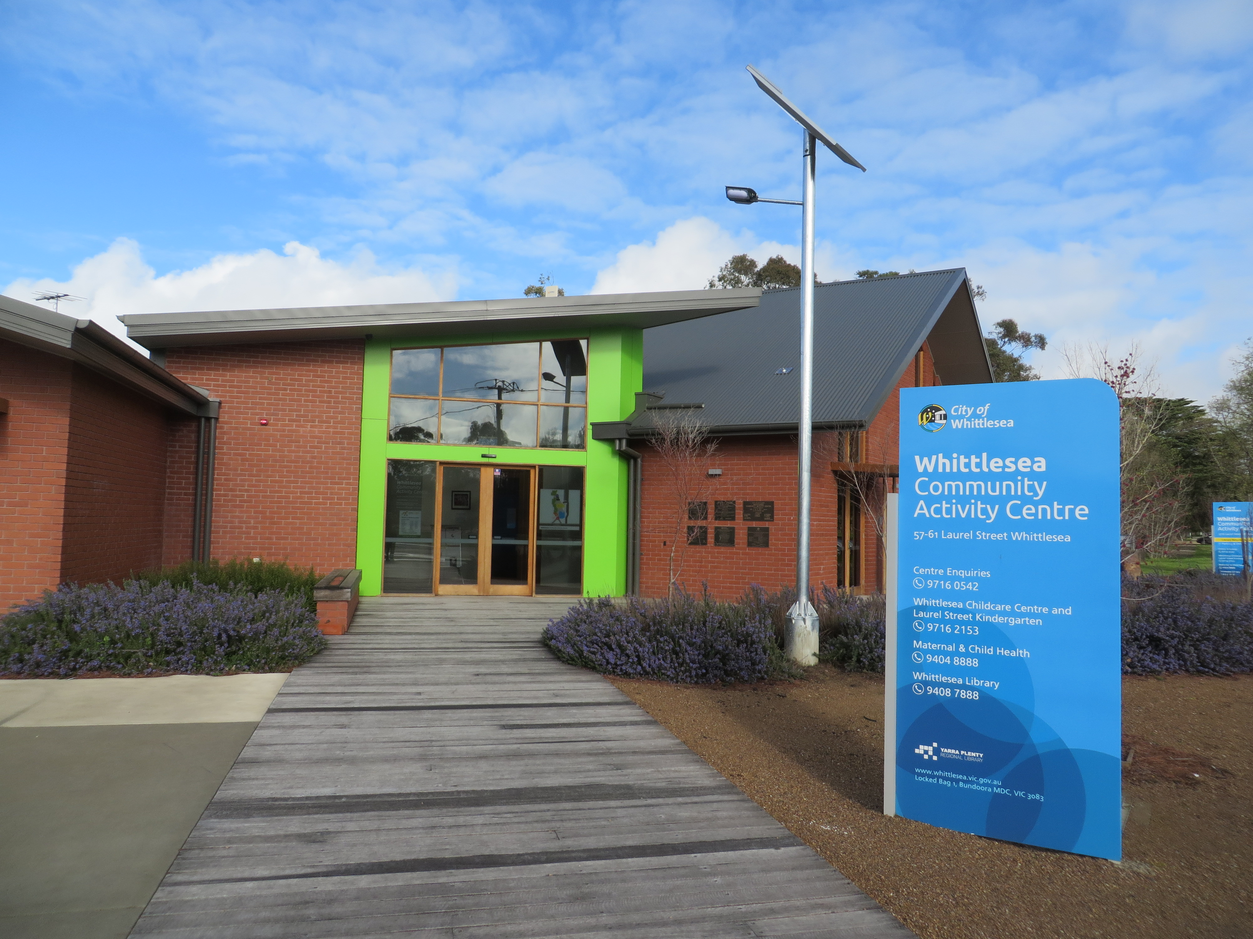 The Whitltesea Community Activity Centre includes the Whittlesea Childcare Centre and Laurel Street Kindergarten, Maternal and Child Health and the Whittlesea Library